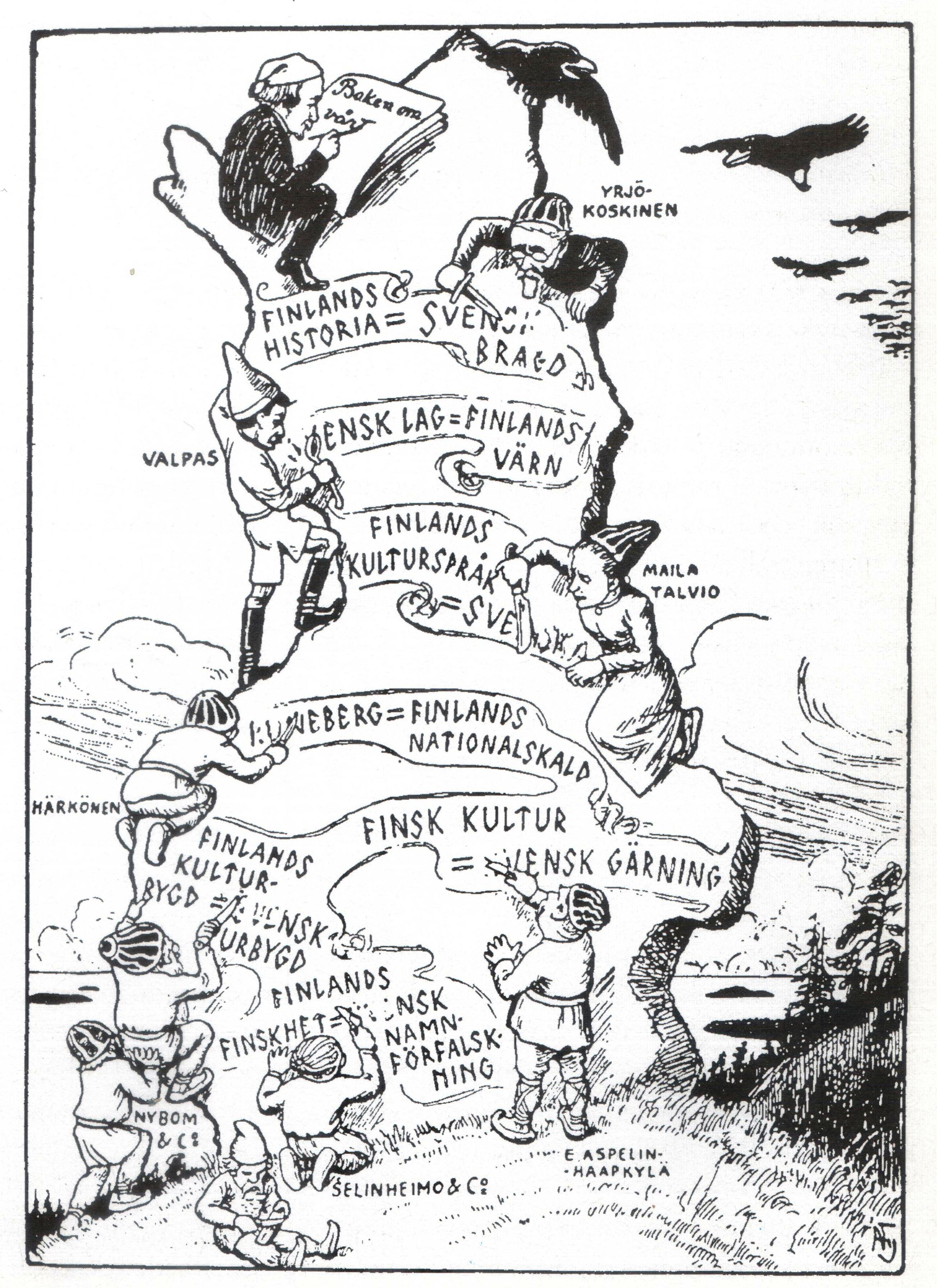 Caricature representing the viewpoint of swedish-speaking Finns and svecomans in the beginning of 20th century: fennomans and socialists are trying to destruct Finland's Swedish cultural heritage. Texts on the map claim that pretty much everything culturally or historically valuable in Finland is Swedish origin. At the same time, the sinister-looking ravens are approaching from the east...